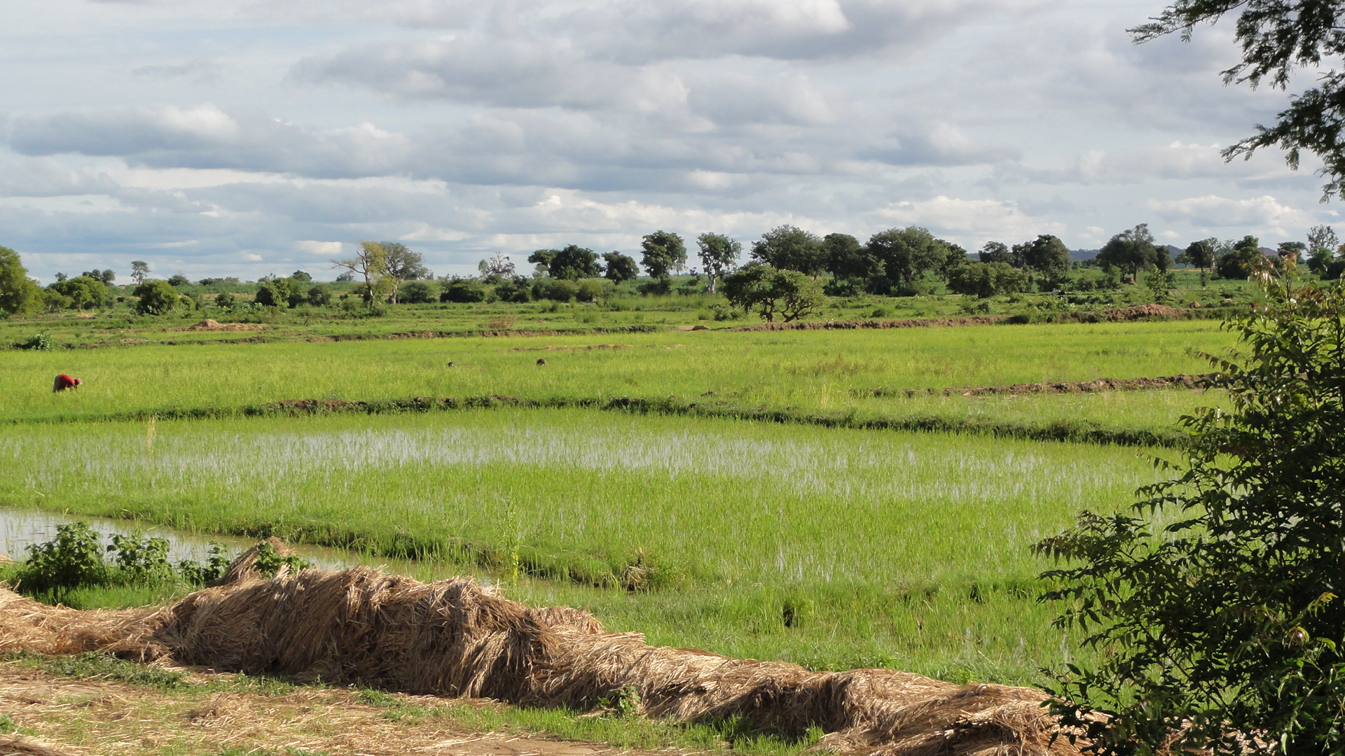 Rice cultivation in Benin